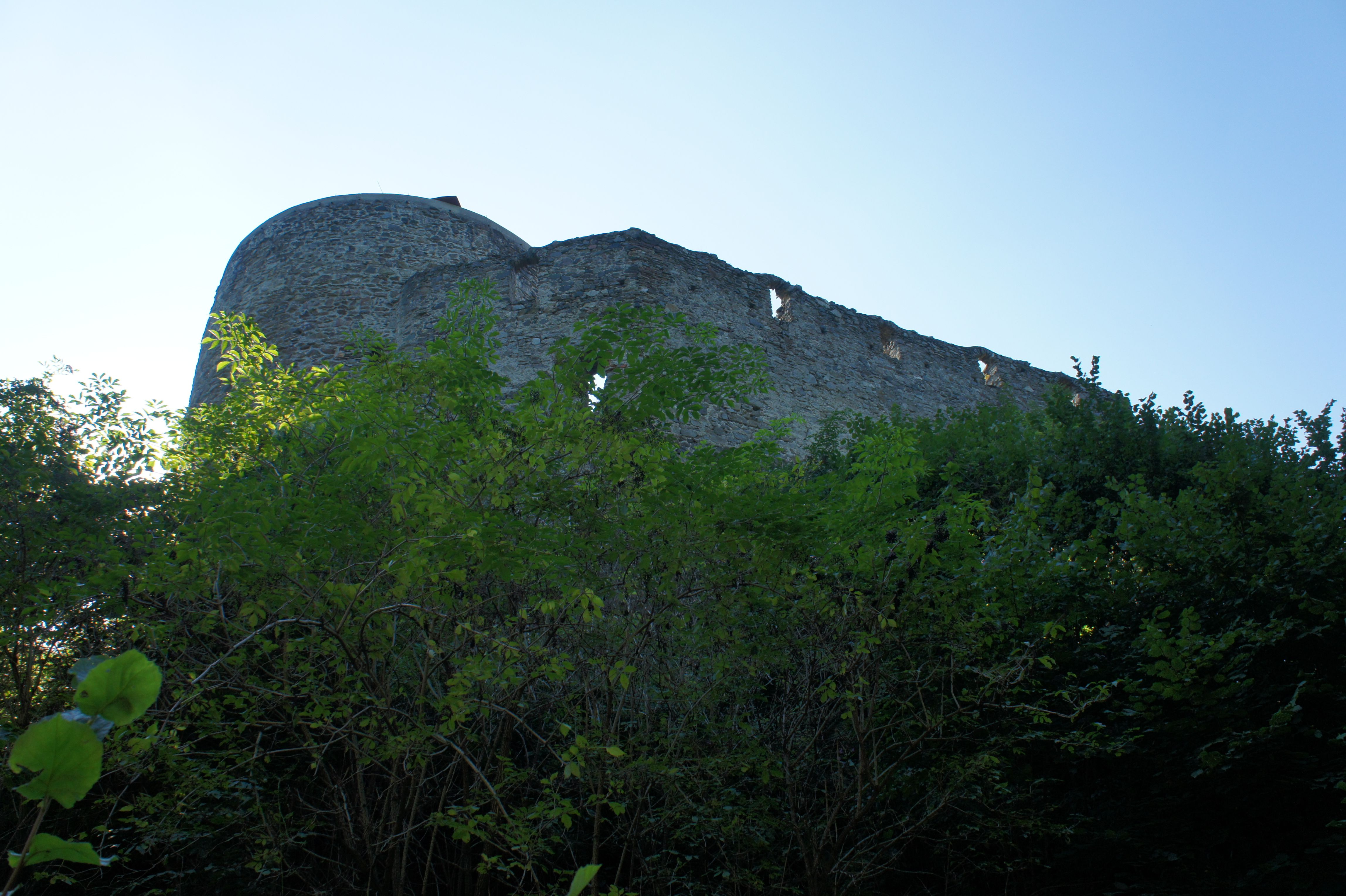 Ziegersberg castle ruin, Zöbern, Austria